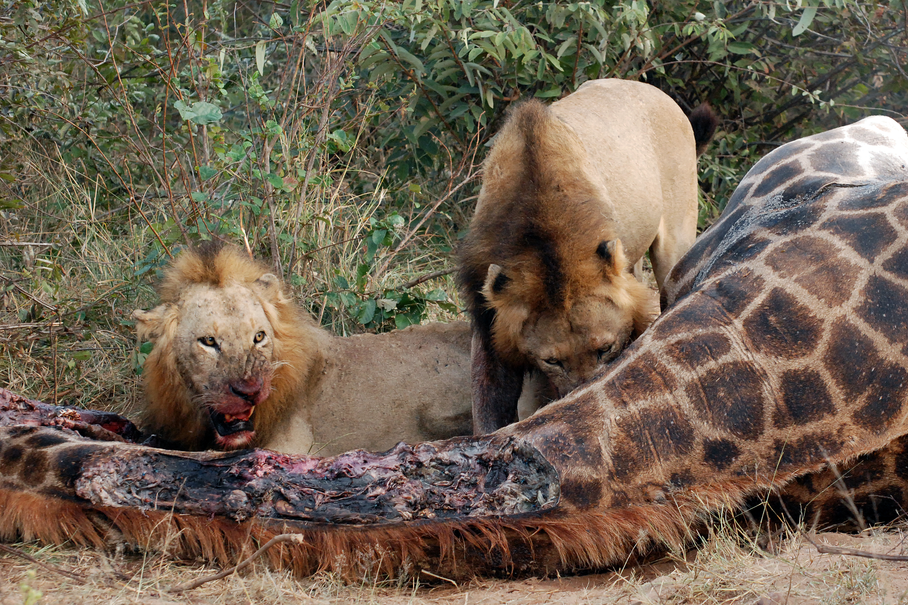 On the morning game drive / the morning after the Lions take down a Giraffe